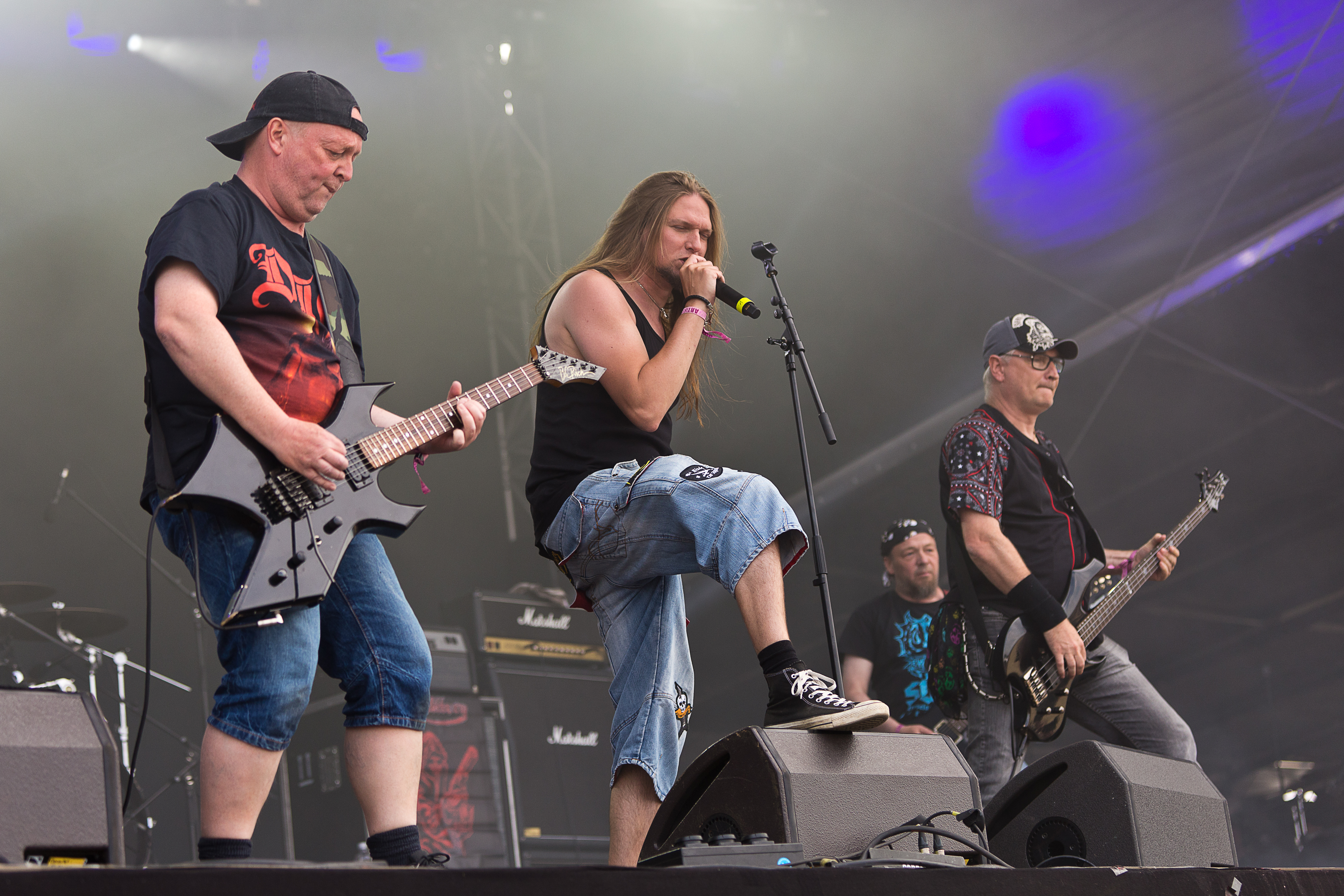 The Danish thrash metal band Artillery at the Rockharz Open Air 2015 in Ballenstedt/Germany.